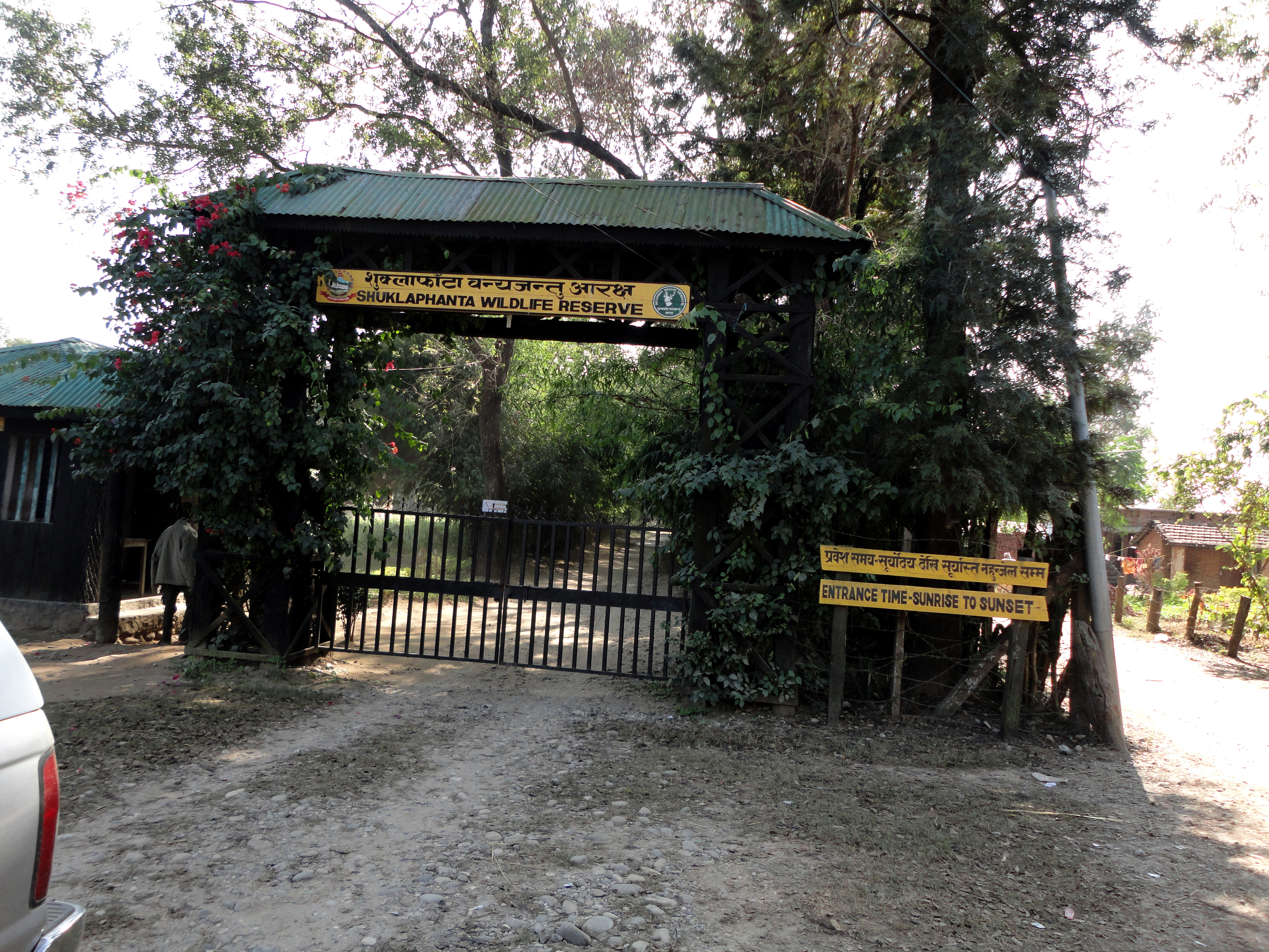 The entrance gate of Suklaphata Wildlife Reserve in Kanchanpur District, Nepal.